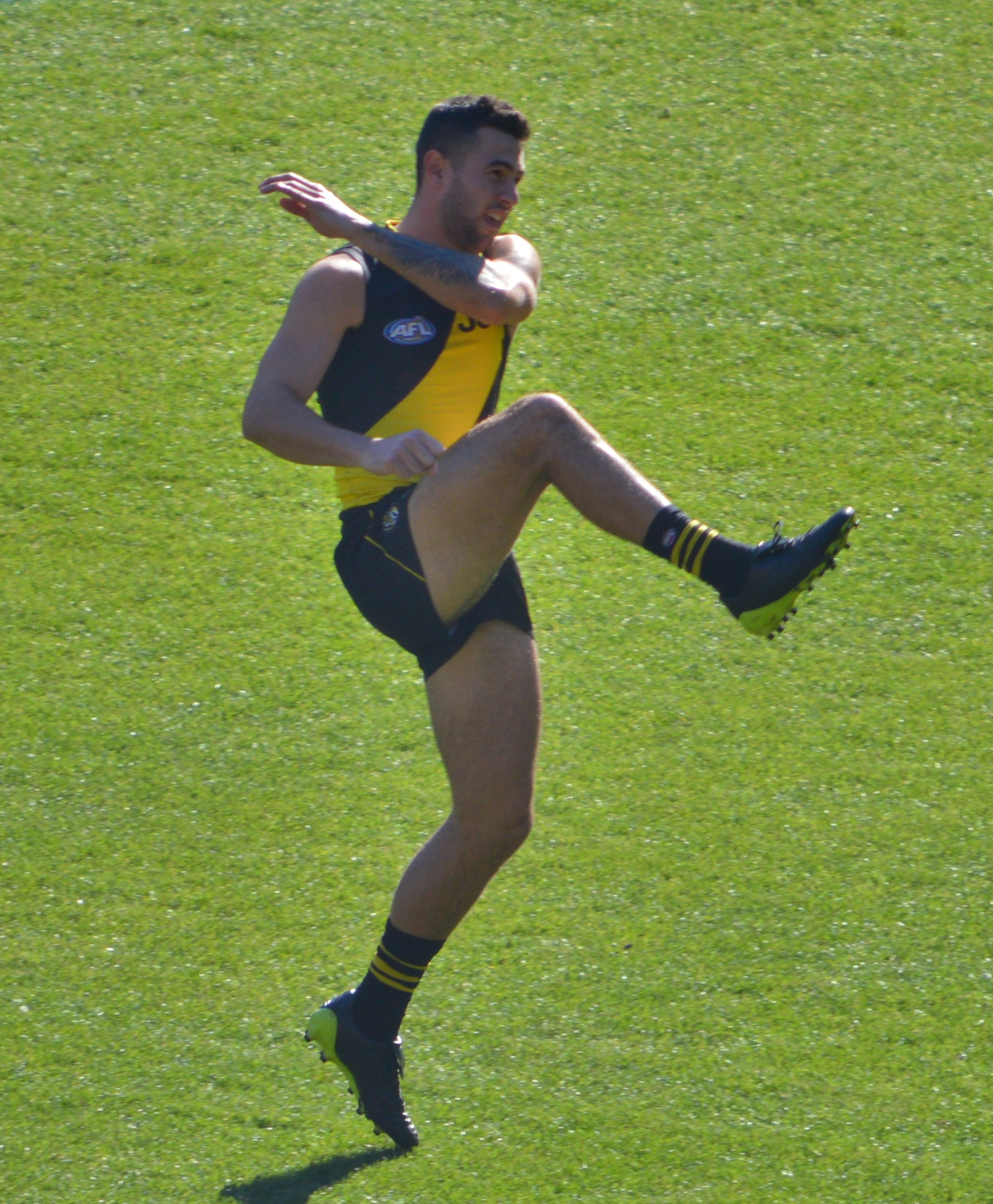 Jack Graham warming up prior to the round 10, 2018 AFL match between Richmond and St Kilda